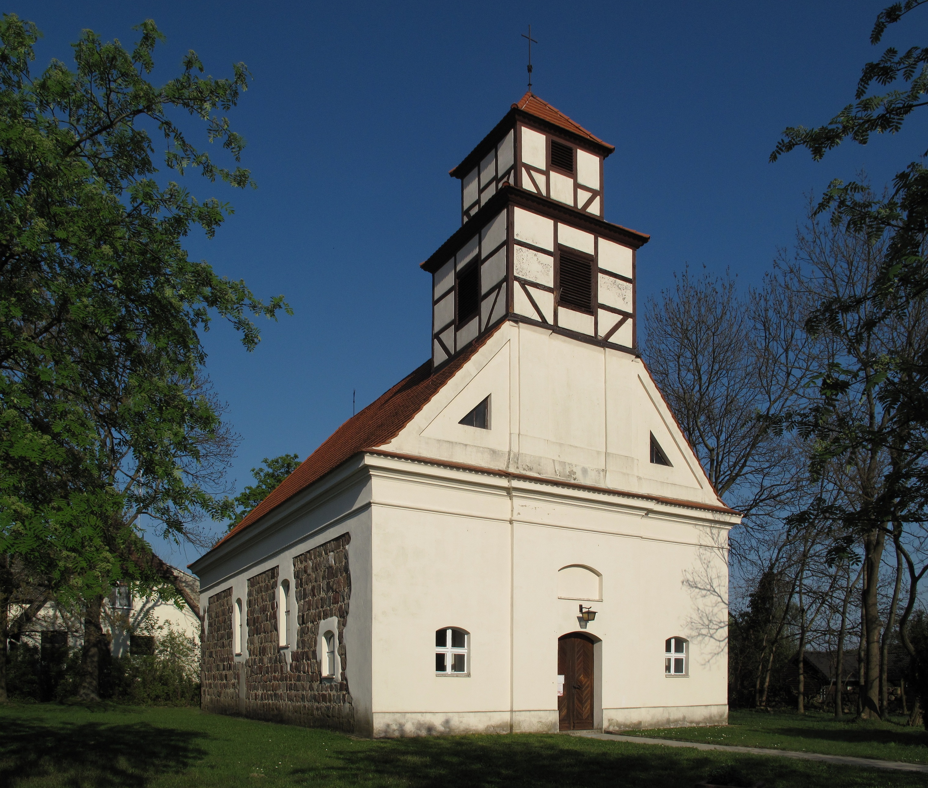 Listed village and Fieldstone church in Trebus. Trebus is a part of Fürstenwalde/Spree in the district Oder-Spree, state Brandenburg, Germany.